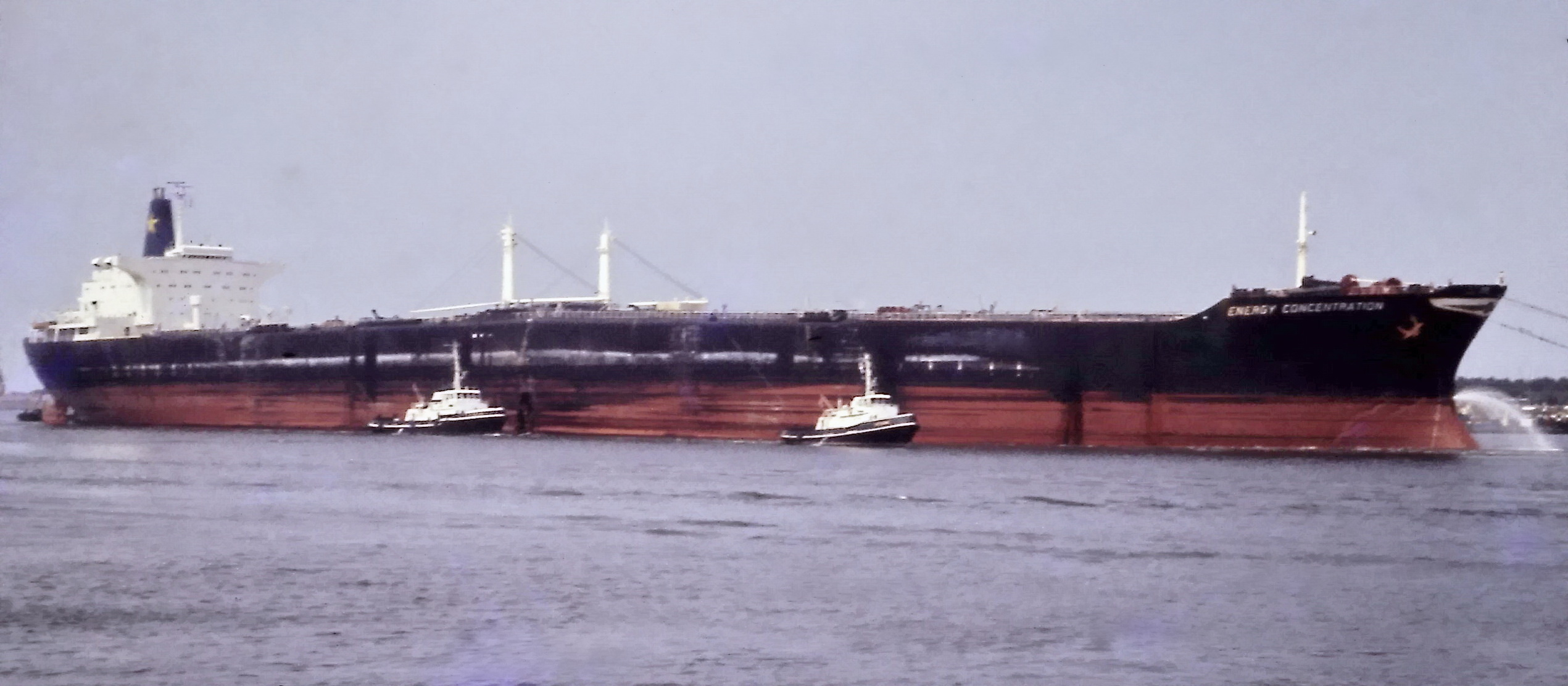 The Energy Concentration towed to Verolme Yard on August 10, 1980 after its accidet at Europoort on July 21, 1980.